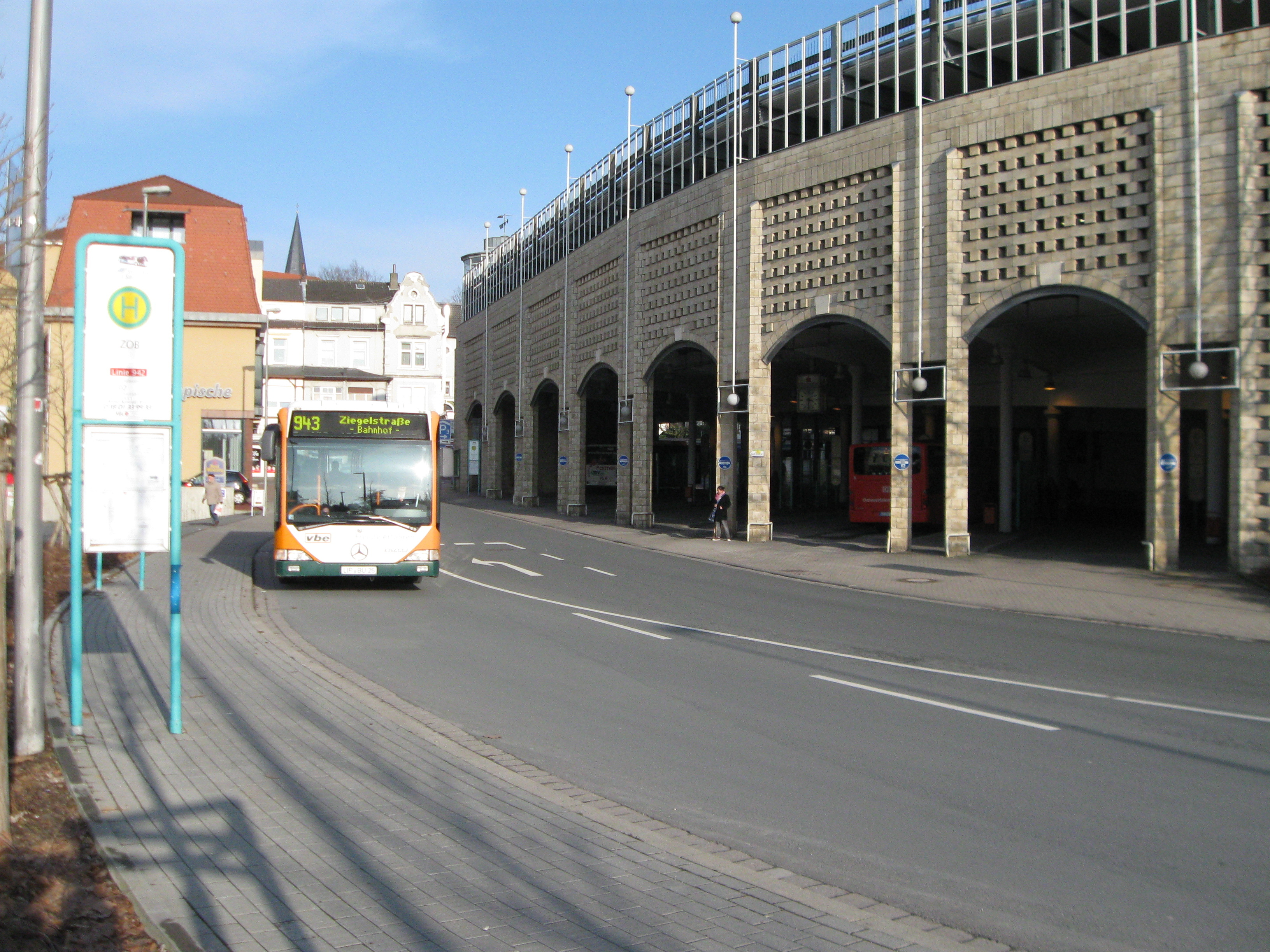 Bad Salzuflen, Ostertor, bus station (ZOB)